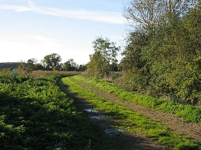 A Bridleway To Bradenham From High Green.